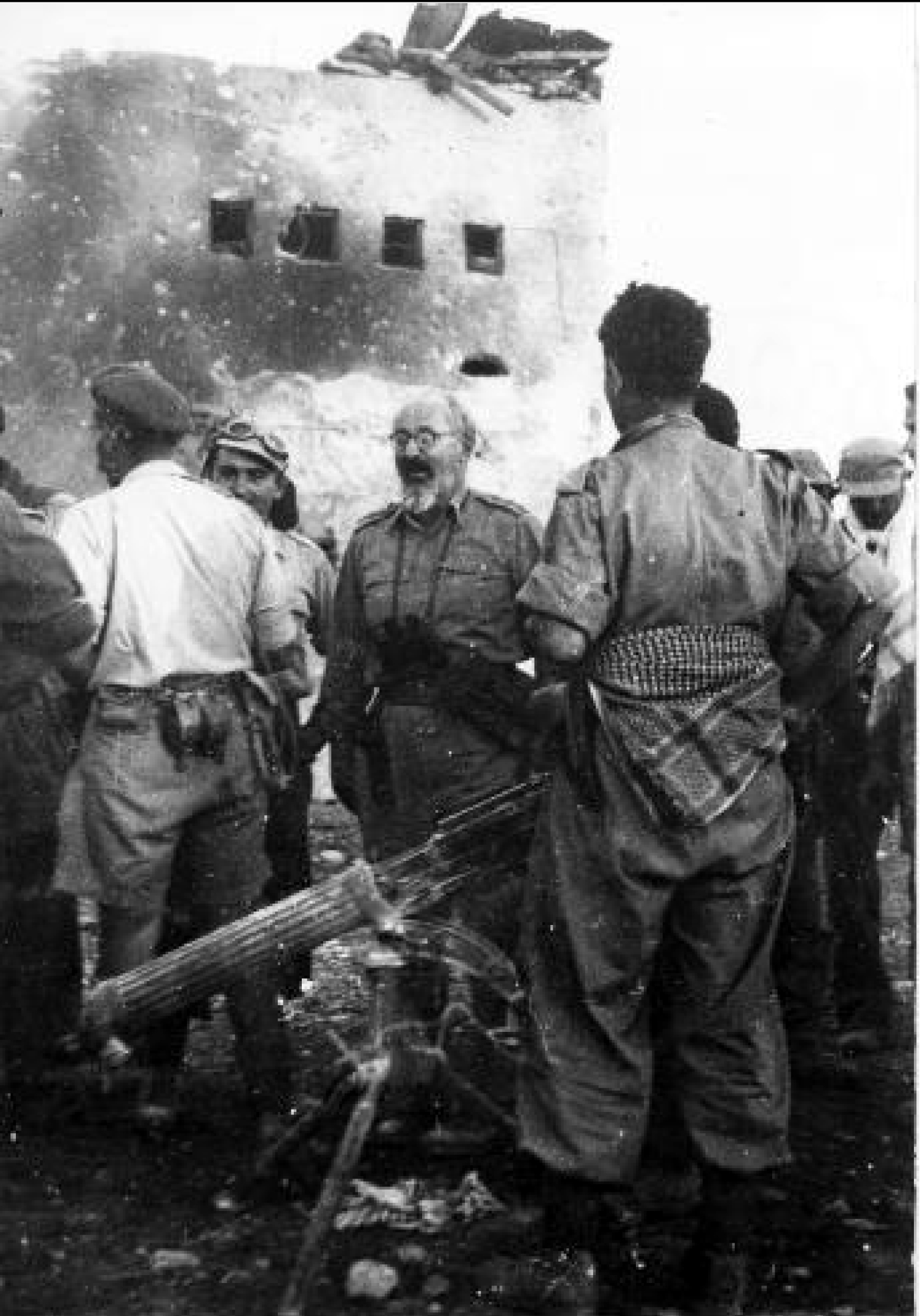 From Palmach archive. Yitzach Sadeh visits the Police fortress at Iraq Suwaydan, 9th November 1948